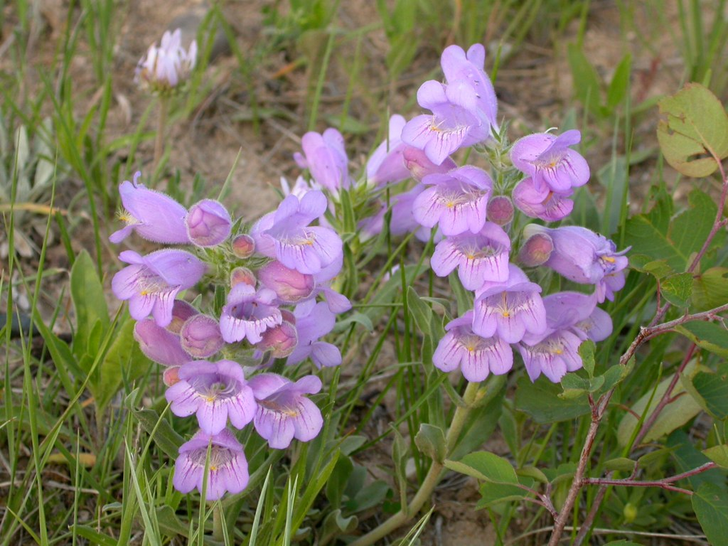 This photo took the 9 June of 2003 in Lindley Place, Bozeman, Massachusets, United States.